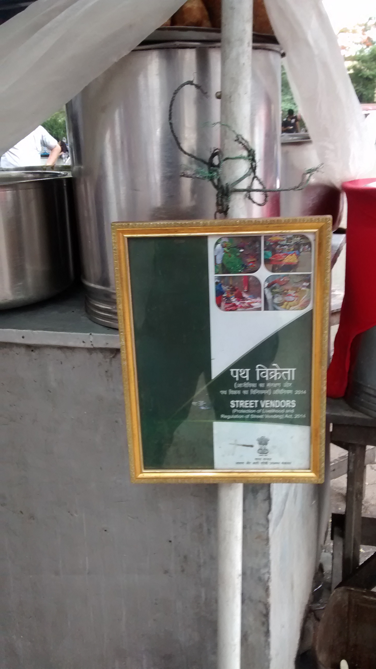 Street Vendors Act 2014 registration display by a street vendor on JL Nehru Road near Park Street, Kolkata